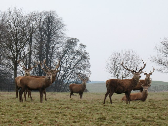 Red Deer Stags Some of the residents of Studley Park. These stags are all pals again after their recent battles during the rut.